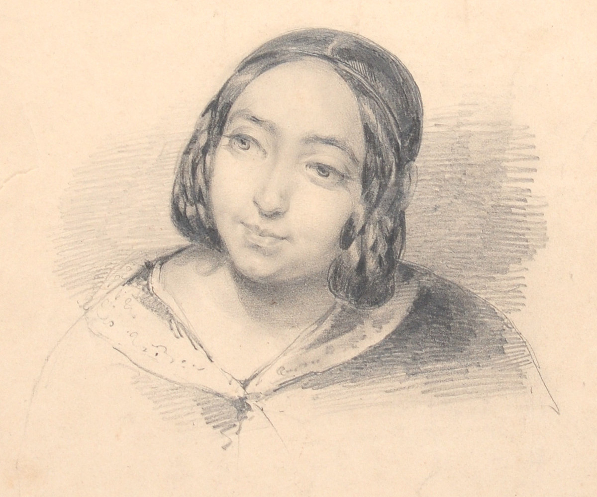 Lithographic portrait of the French painter and lithographer Blanche Hennebutte-Feillet (1815-1886)